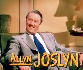 Cropped screenshot of Allyn Joslyn from the trailer for the film I Love Melvin.